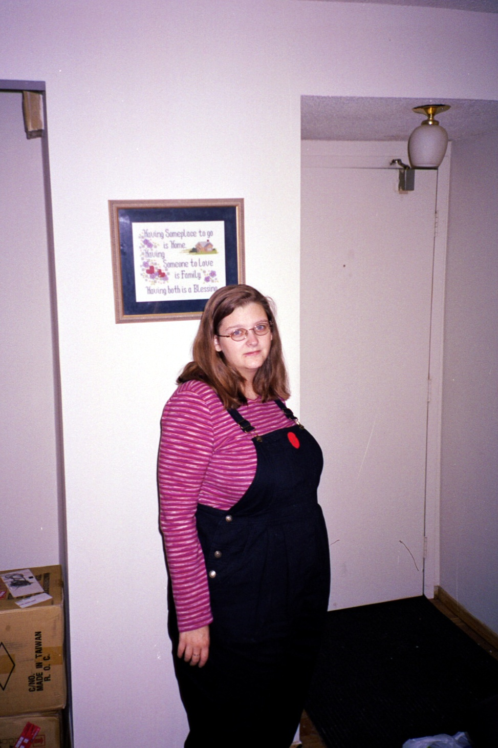 Woman wearing black overalls.